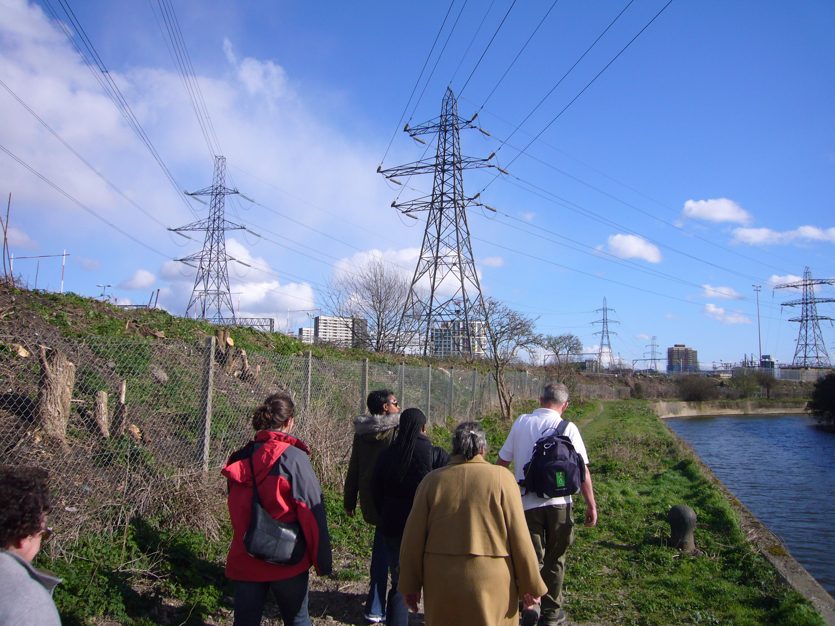 City Mill River before the Olympics.